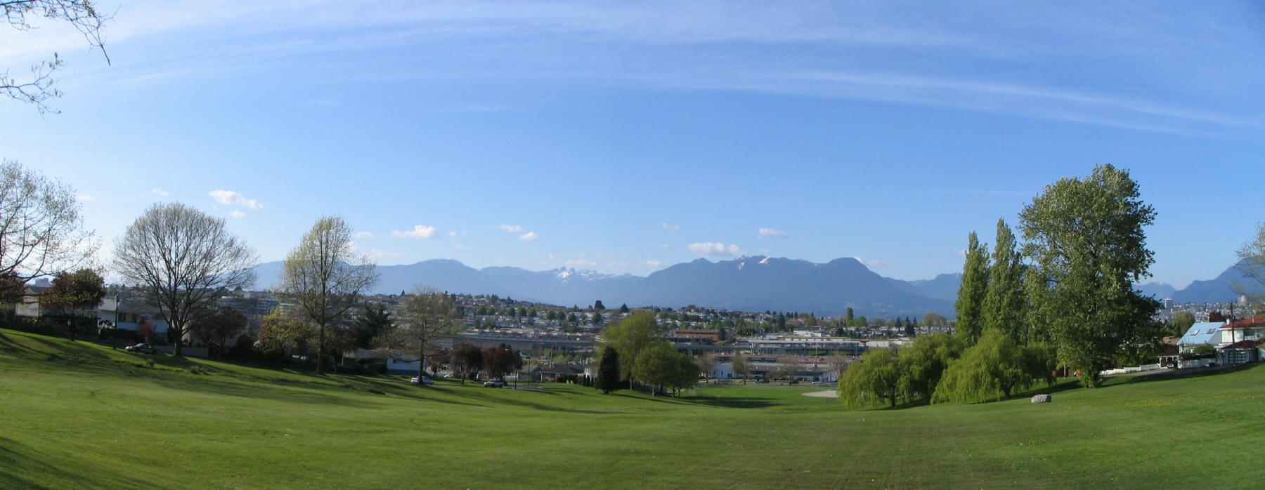 This image was created by me, Flying Penguin of Pacific Spirit Photography ( of Burnaby, British Columbia, Canada